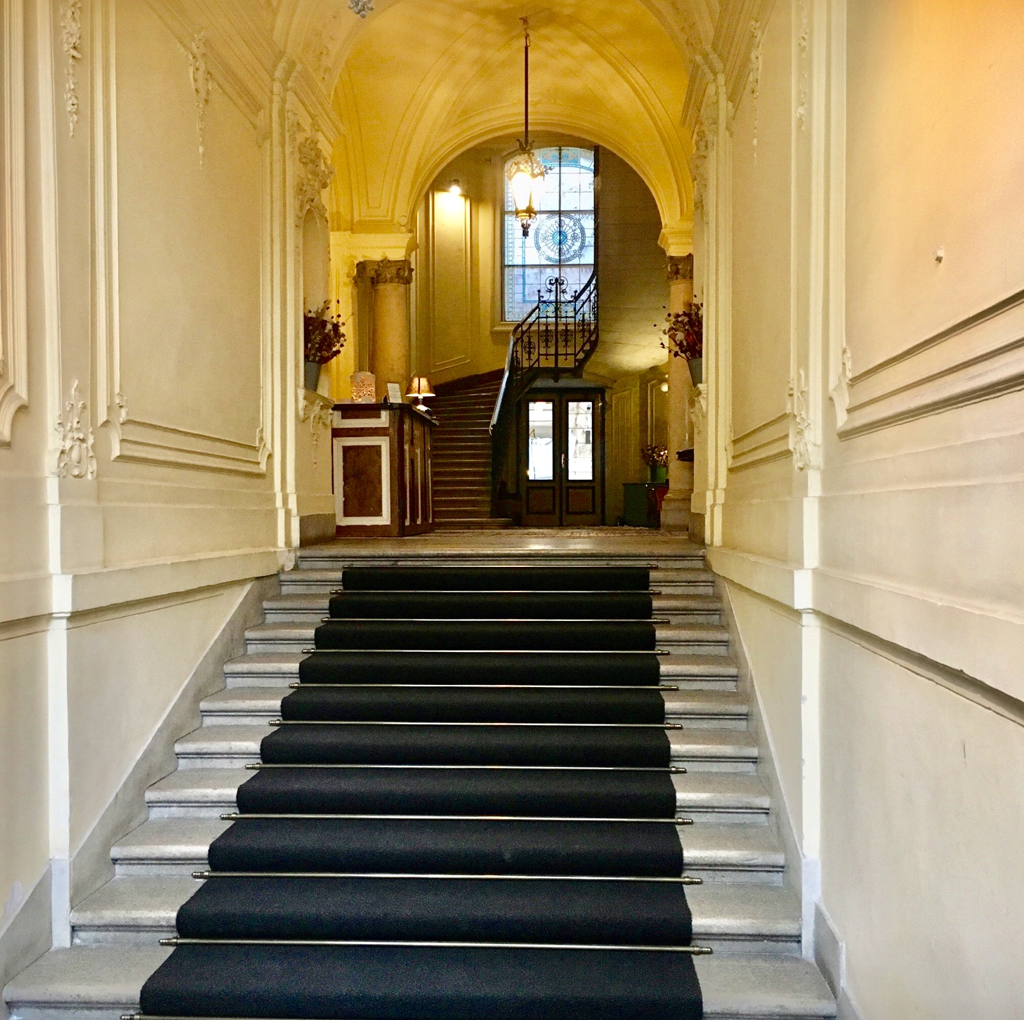 The elegant entrance of Bródy House, in the Tauffer Palace, Bródy Sándor u. 10